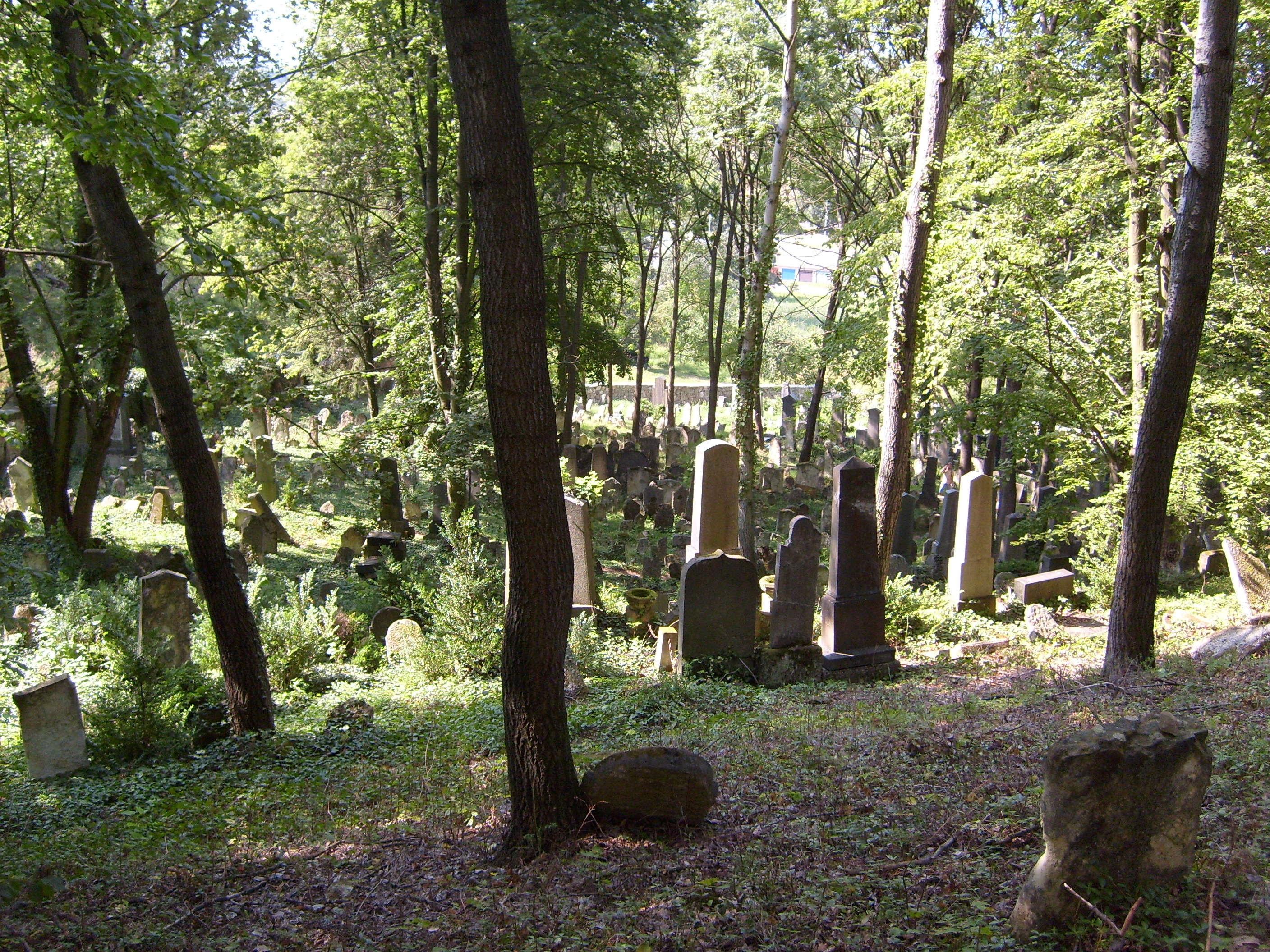 Jewish cemetery in Boskovice, Czech Republic